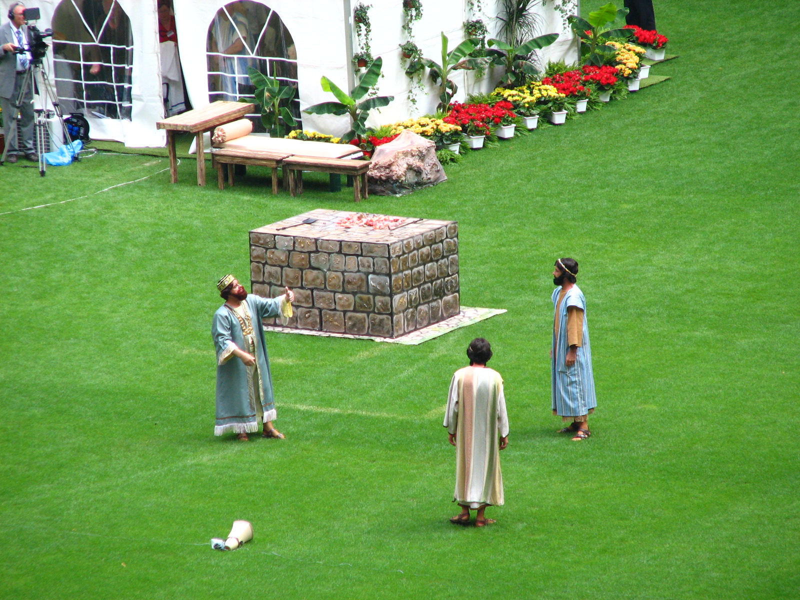 Performance in a bible play at an international convention of Jehovah's Witnesses in Hamburg, Germany in 2006; Visitors came from Belgium, Denmark, Germany, The Netherlands, Norway, Sweden, and USA